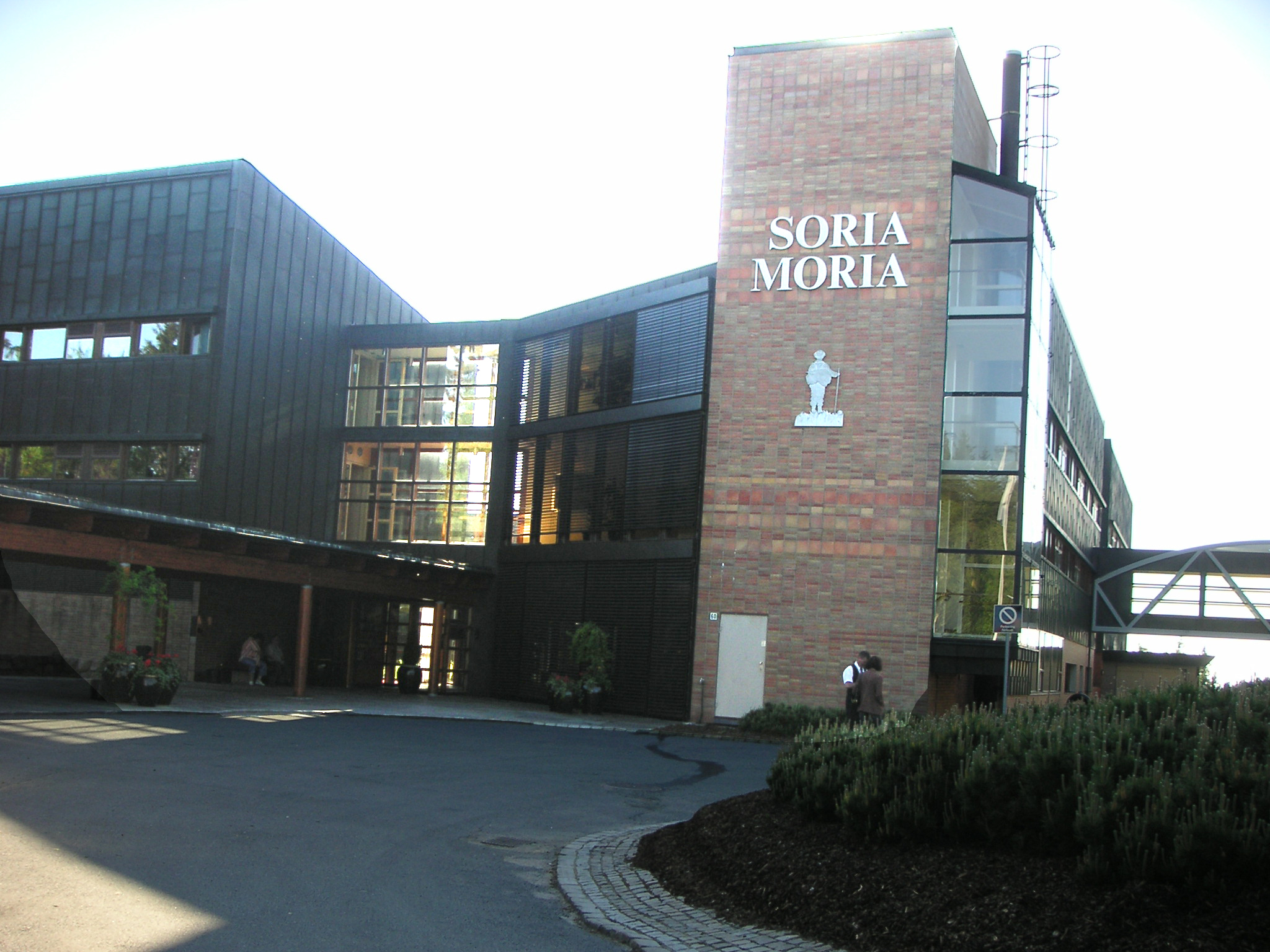 A popular and well known hotel and confress-center in Oslo.